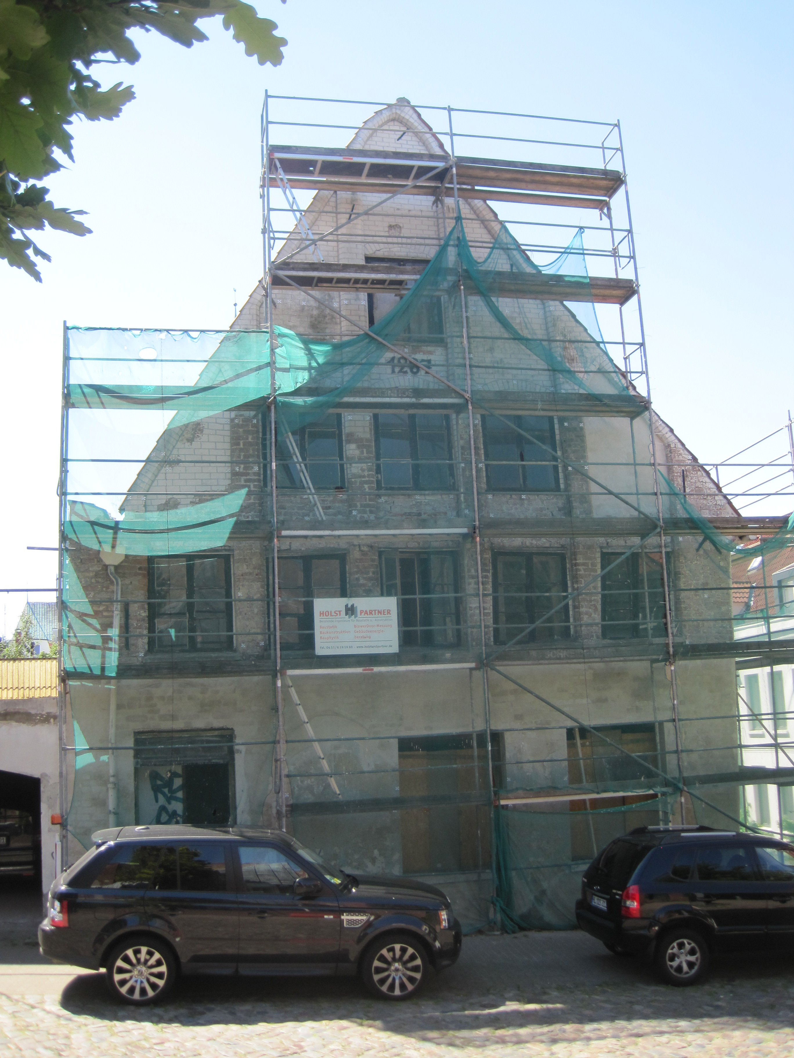 Hinter der Burg 15